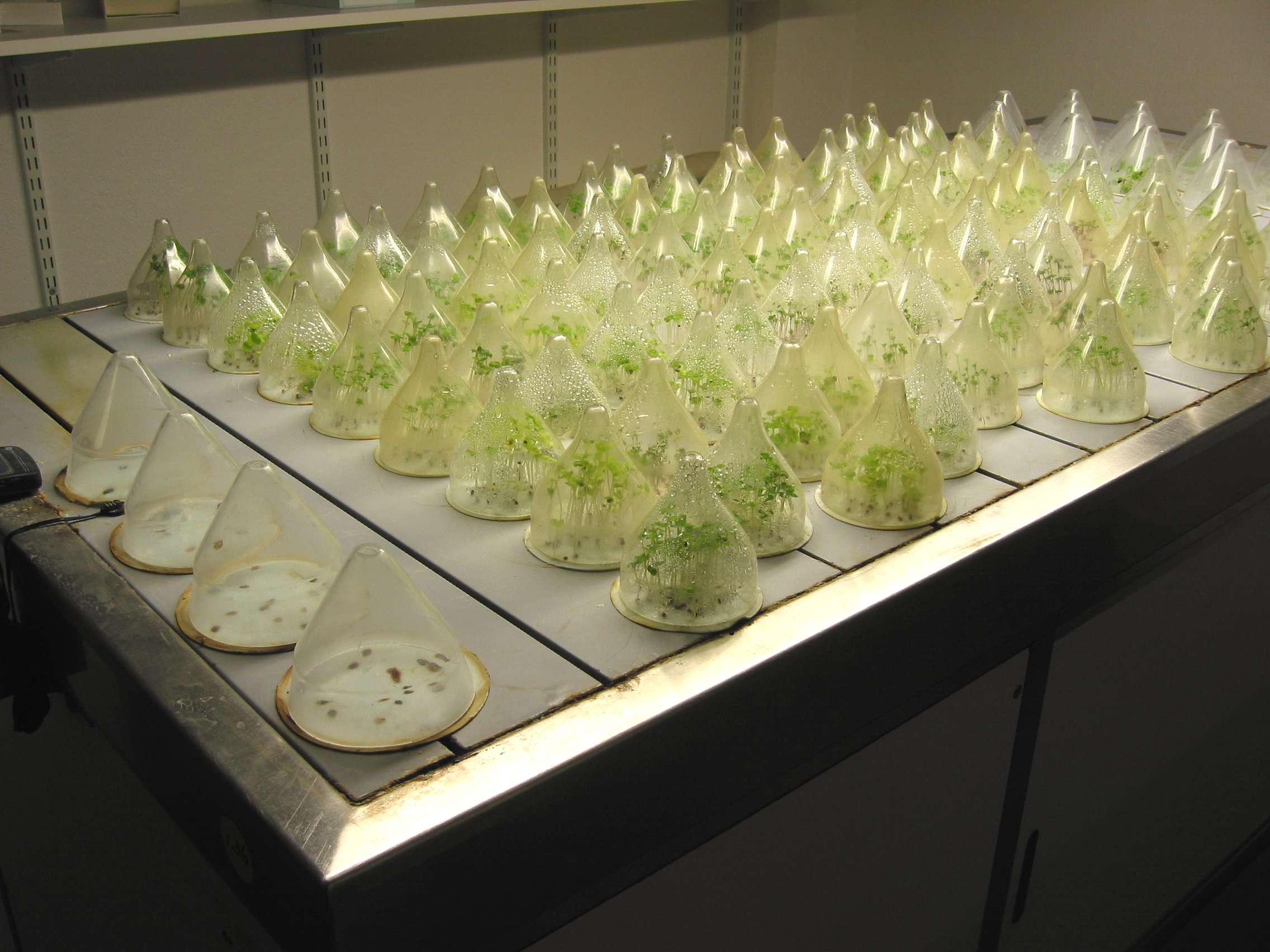 germination table